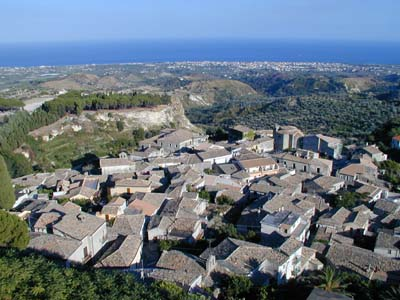 see user:Attilios talk for images from